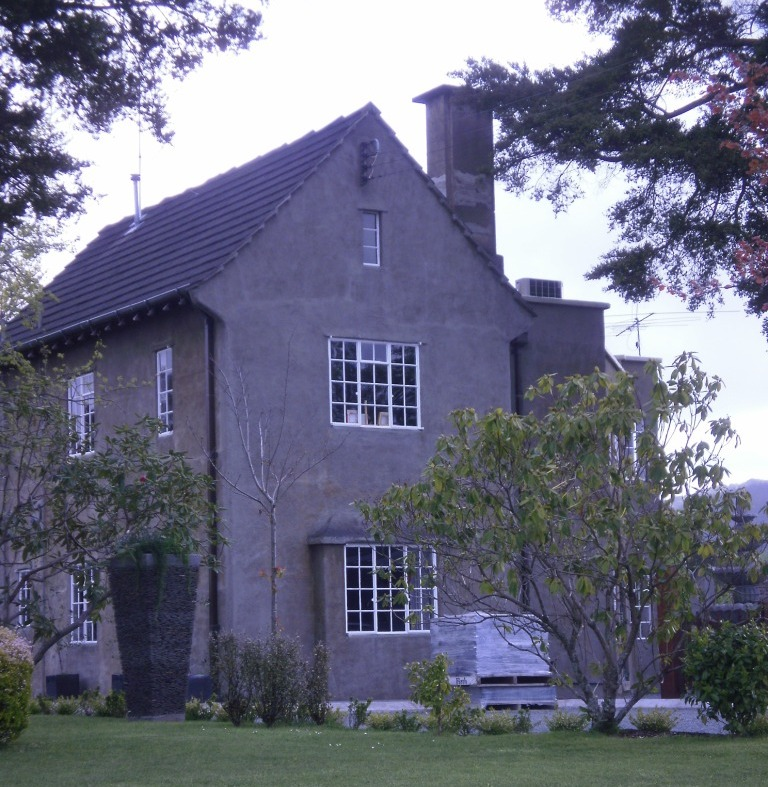 Brentwood Manor (formerly Tweed House), Trentham, Upper Hutt, New Zealand. Designed by Arts & Crafts style architect James Walter Chapman-Taylor, built in 1931.